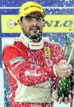 Photo Pedro Couceiro